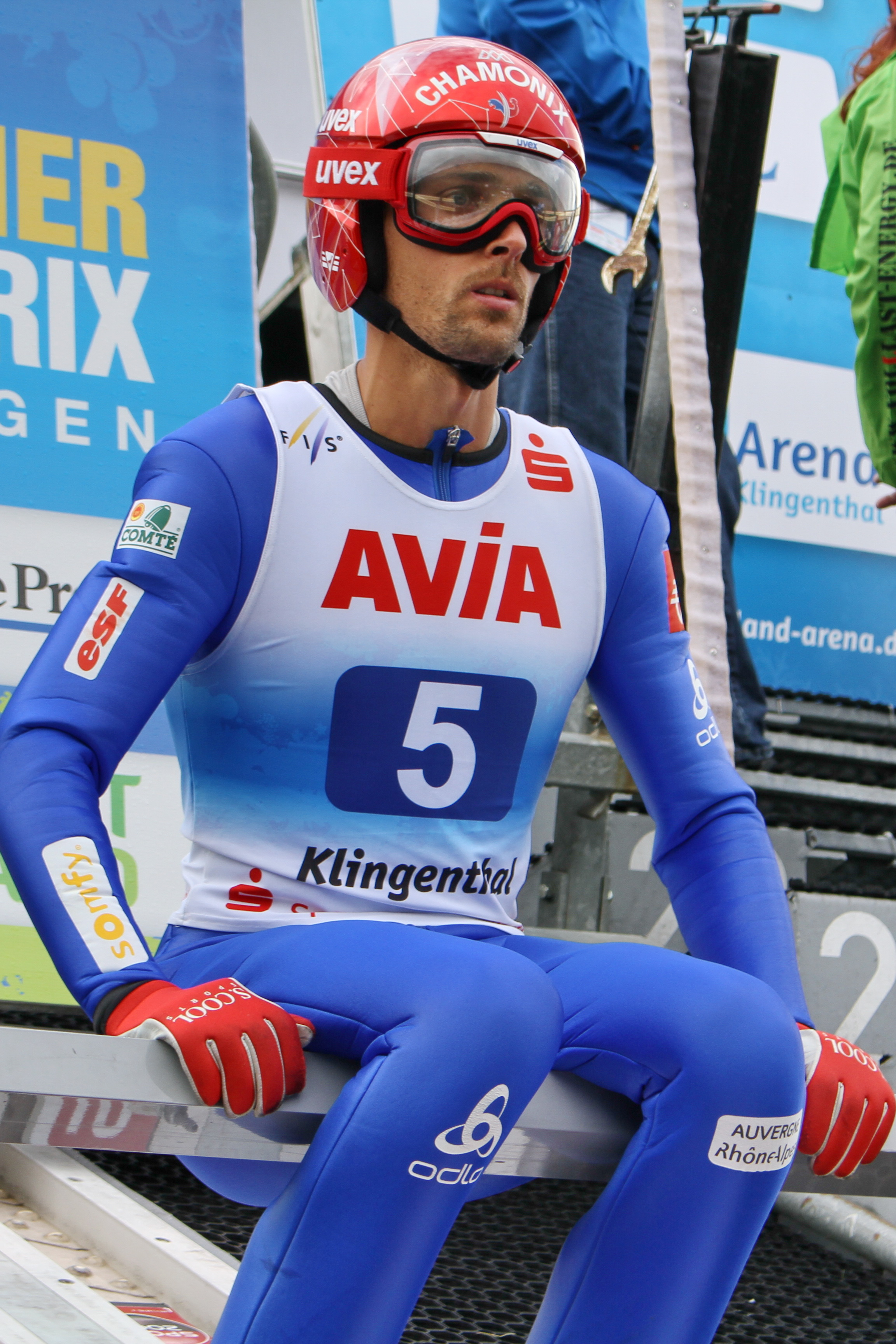 FIS Ski Jumping Summer Grand Prix Klingenthal 2017 on 2017-10-03 Vincent Descombes Sevoie